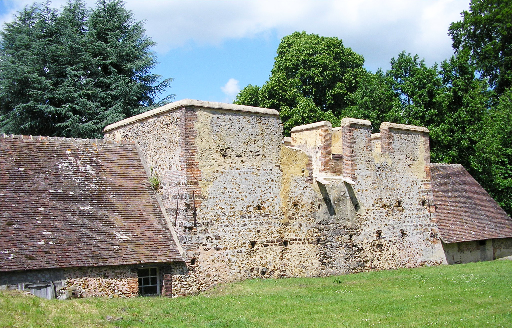 Marly Machines. The ancient blast furnaces of Dampierre.